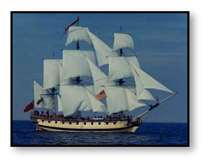 ROSE under sail off Massachusetts in 1971 on her way from Newport to Boston, photo taken by the late General William Lanagan (USMC), not copyrighted.